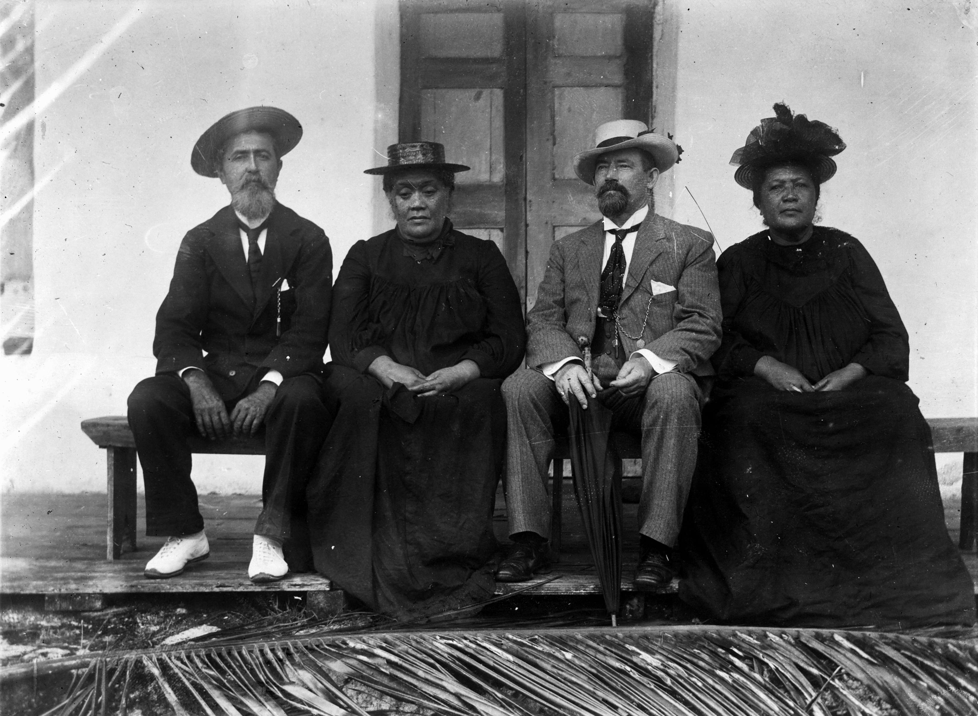 From left: Pa Ariki, Queen Makea, Hon C H Mills and Tinomana Ariki at Rarotonga in 1903. Photograph taken by G A Read during a visit of Members of the New Zealand Legislature to to the Cook and other Pacific islands.